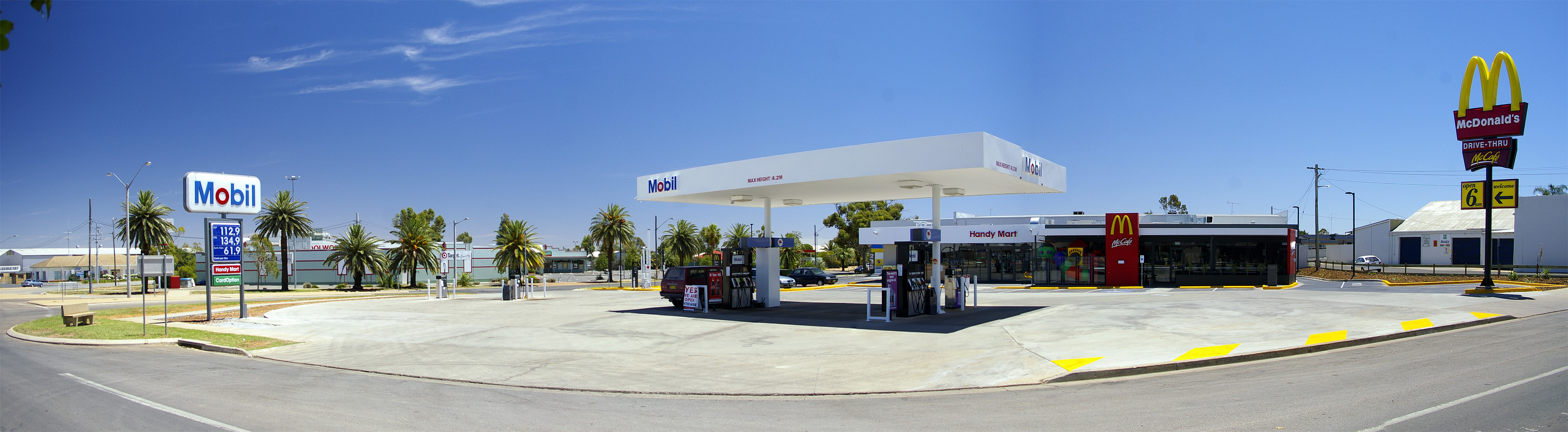 Mobil petrol station and McDonald's McCafé in Leeton, New South Wales, Australia.